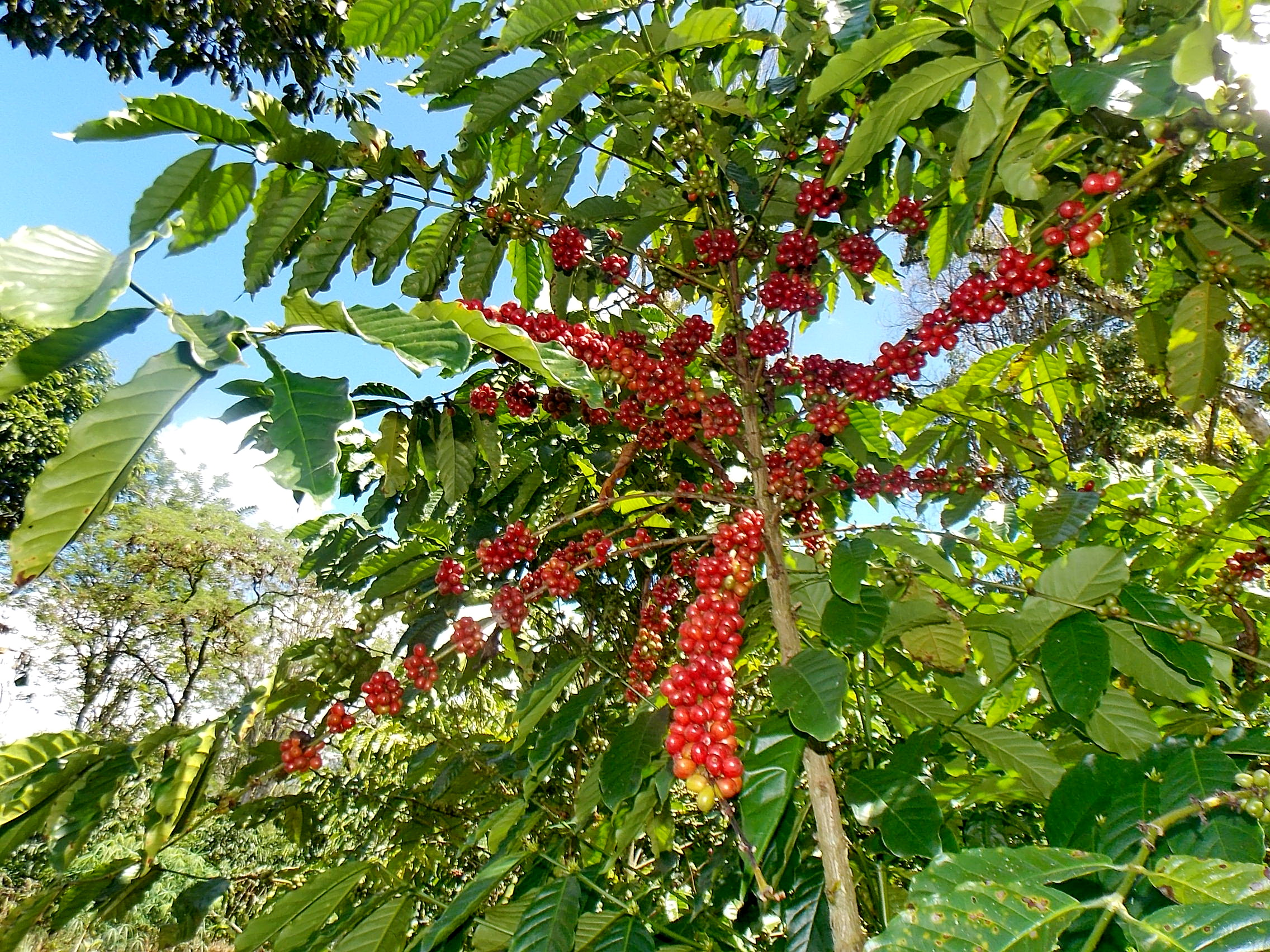 COFFEE OF PAGARALAM SOUTH SUMATERA INDONESIA